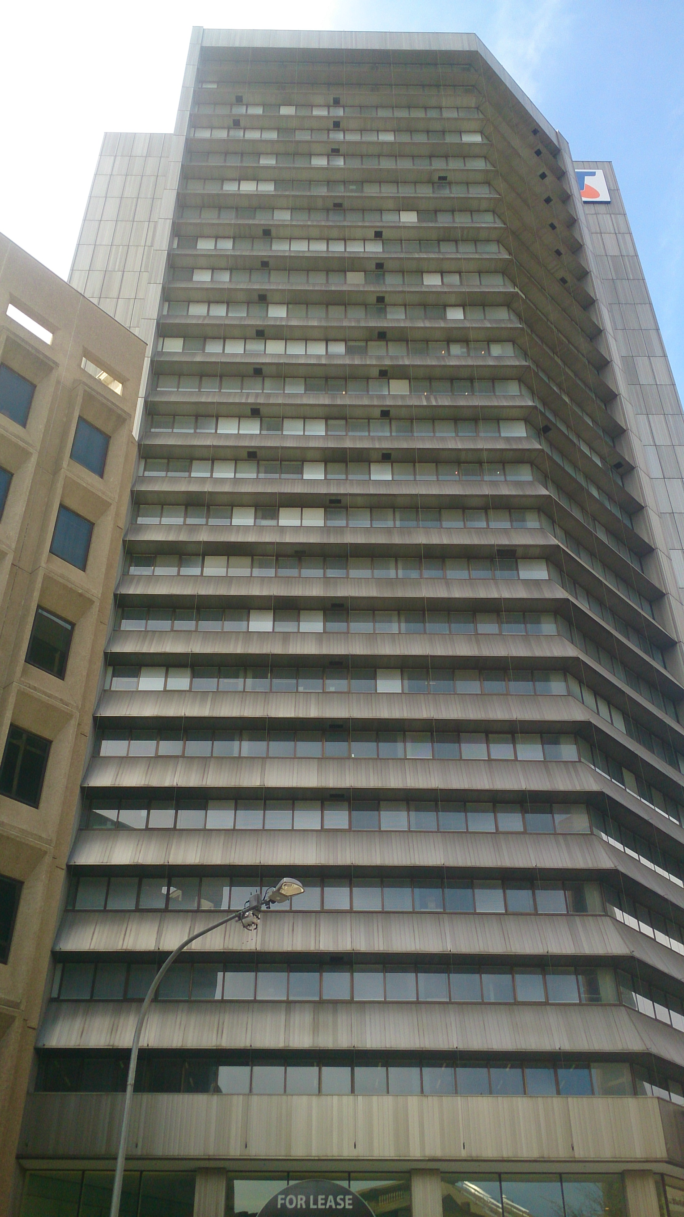 Telstra House in Adelaide.